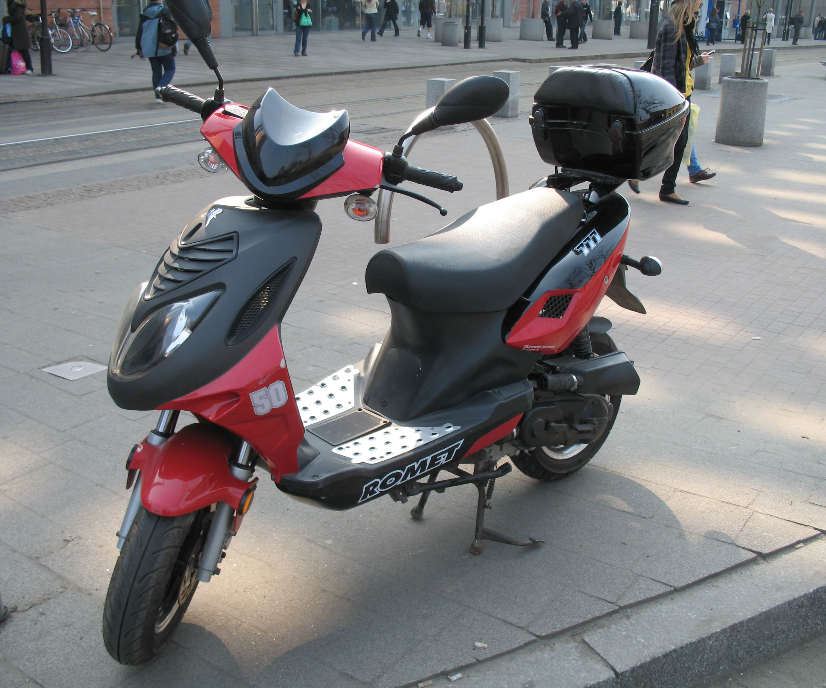 Romet 777 scooter in Kraków, Poland.